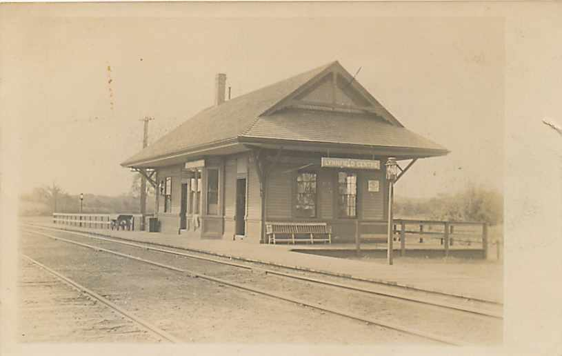 Early undivided back postcard of Lynnfield Centre station on the Newburyport Railroad